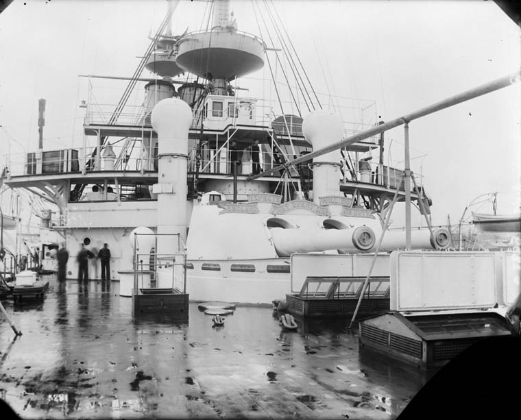 Photograph of quarterdeck and aft 10 inch guns of British battleship HMS Renown at Halifax, Nova Scotia, Canada while Renown was flagship of the North America and West Indies Squadron.